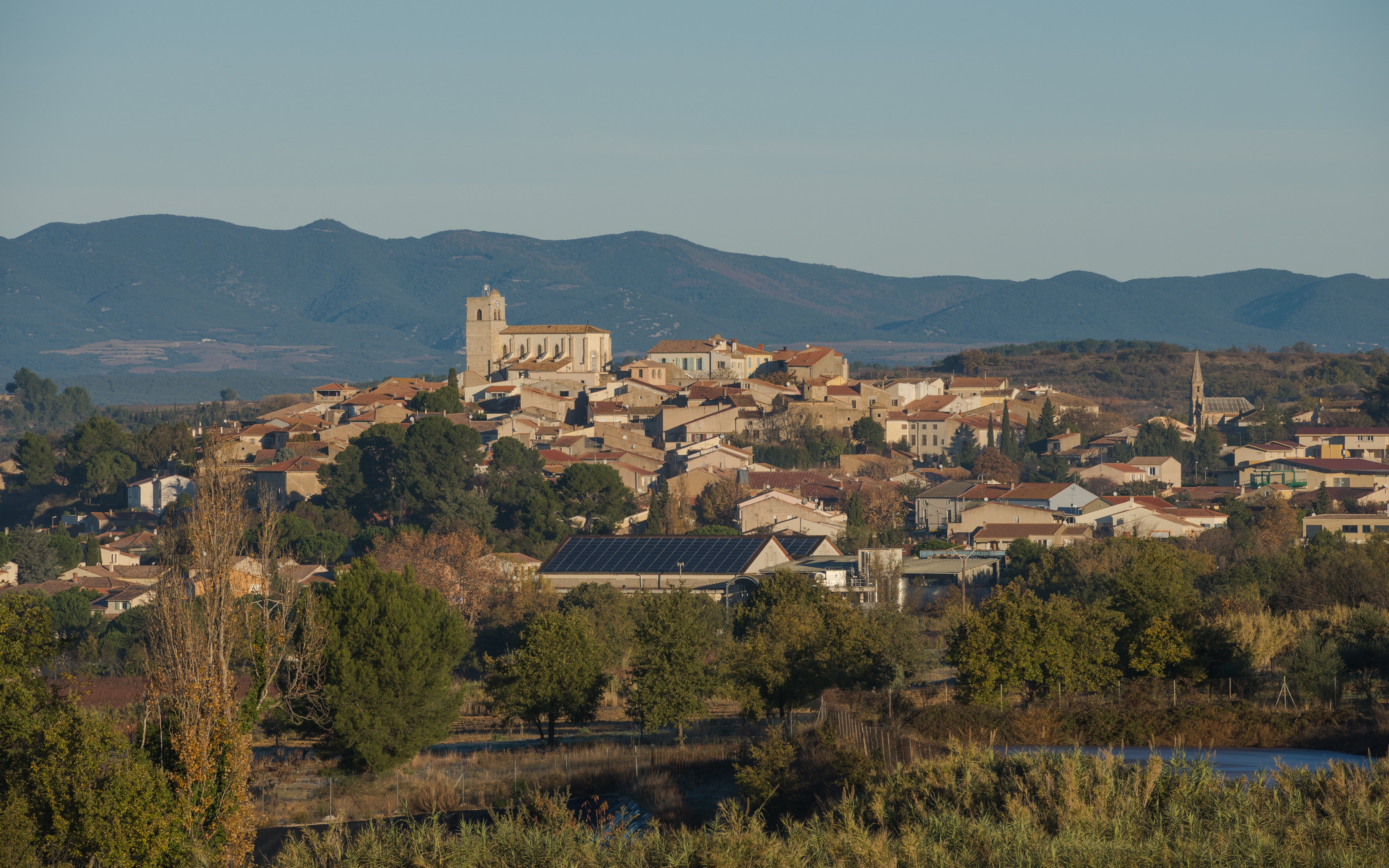 The historic part of the village built on a hill. Corneilhan, Hérault, France.